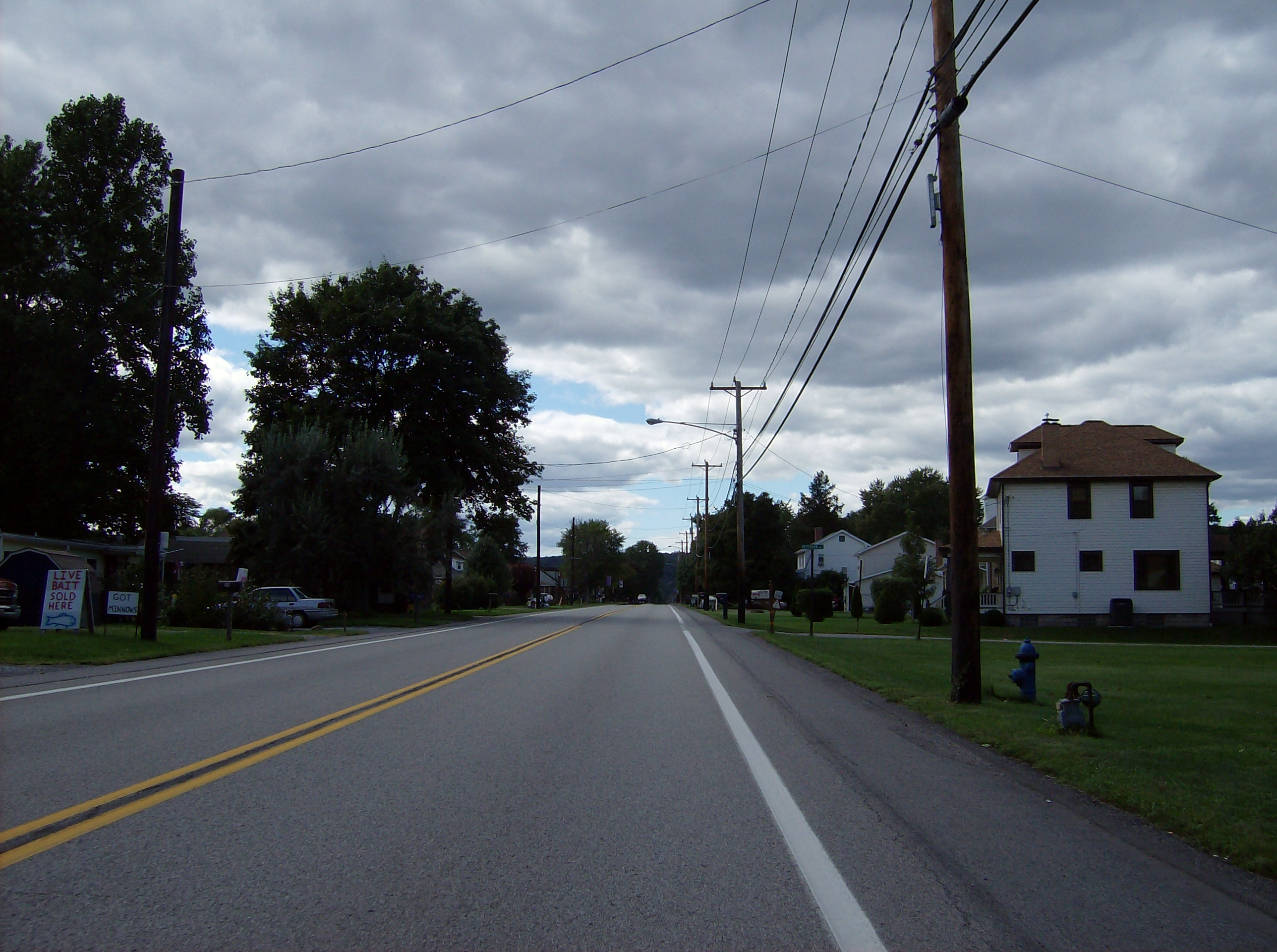 Along westbound Route 68 in eastern Ohioville, Pennsylvania, United States.